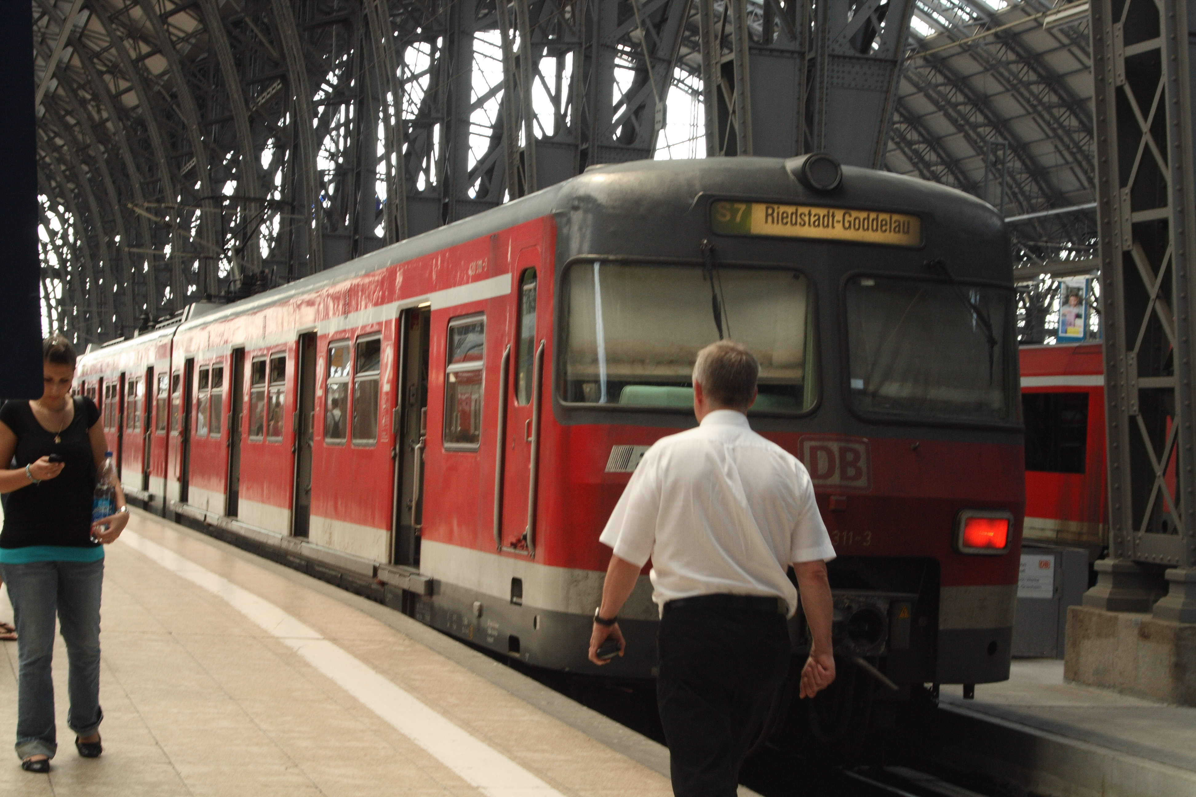 Class 420 at Frankfurt Hbf